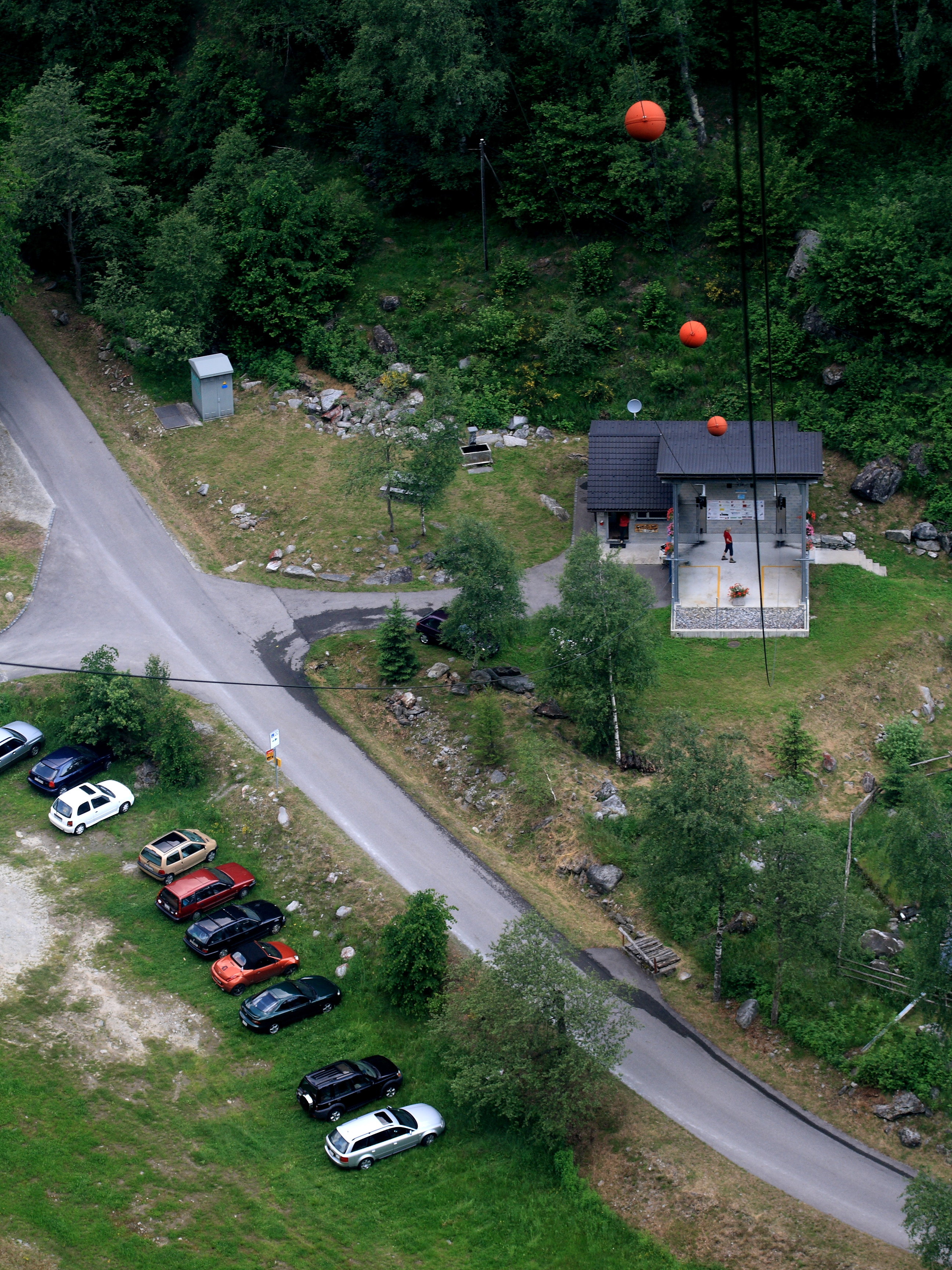 Base station of the Alla Ca cable car in Gresso, near Vergeletto in Ticino, Switzerland